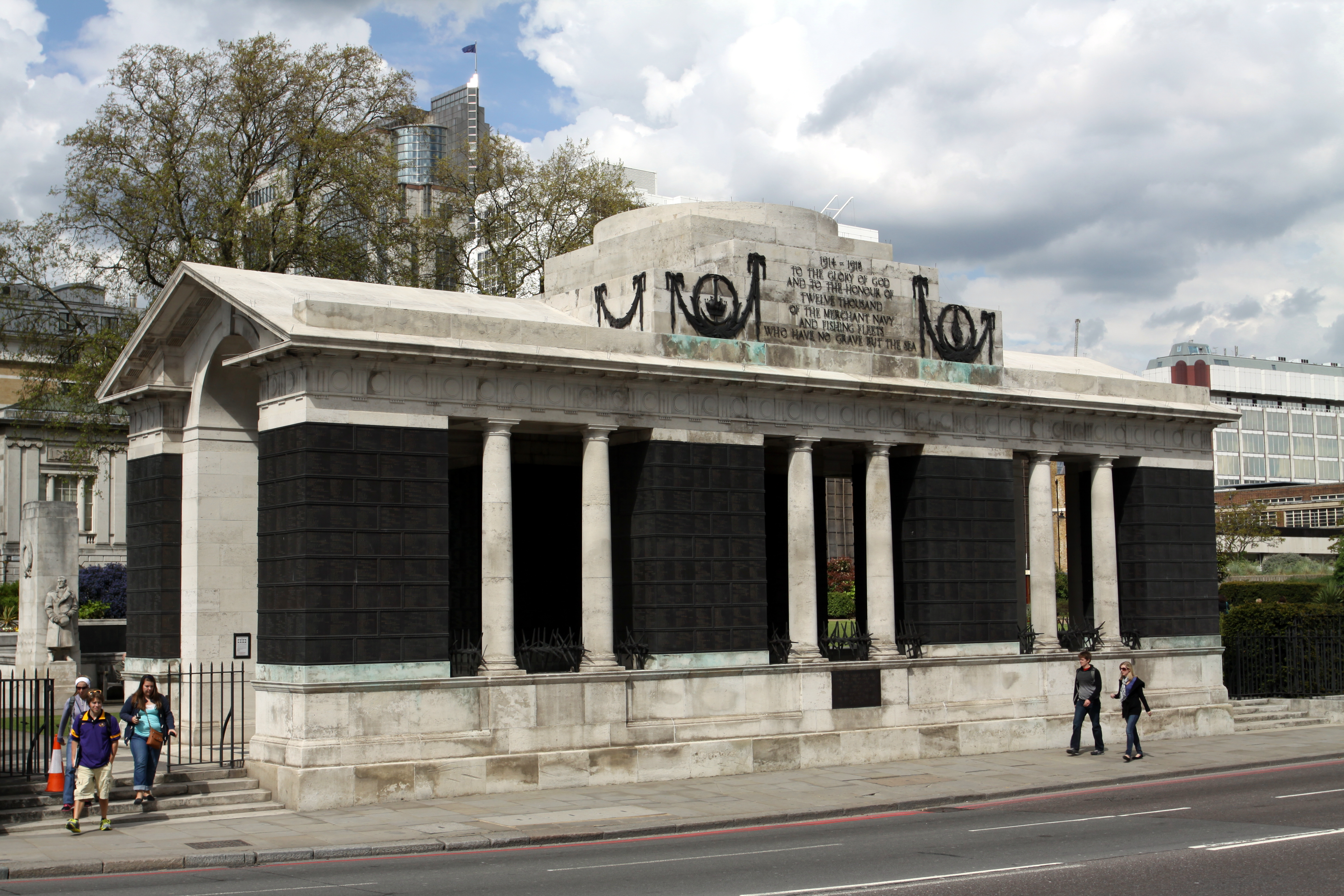 Tower Hill Memorial, London, England, Great Britain The making of this file was supported by Wikimedia UK.